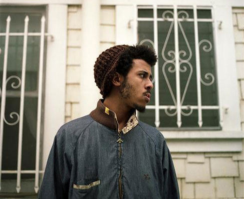 A picture of the rapper Blu.